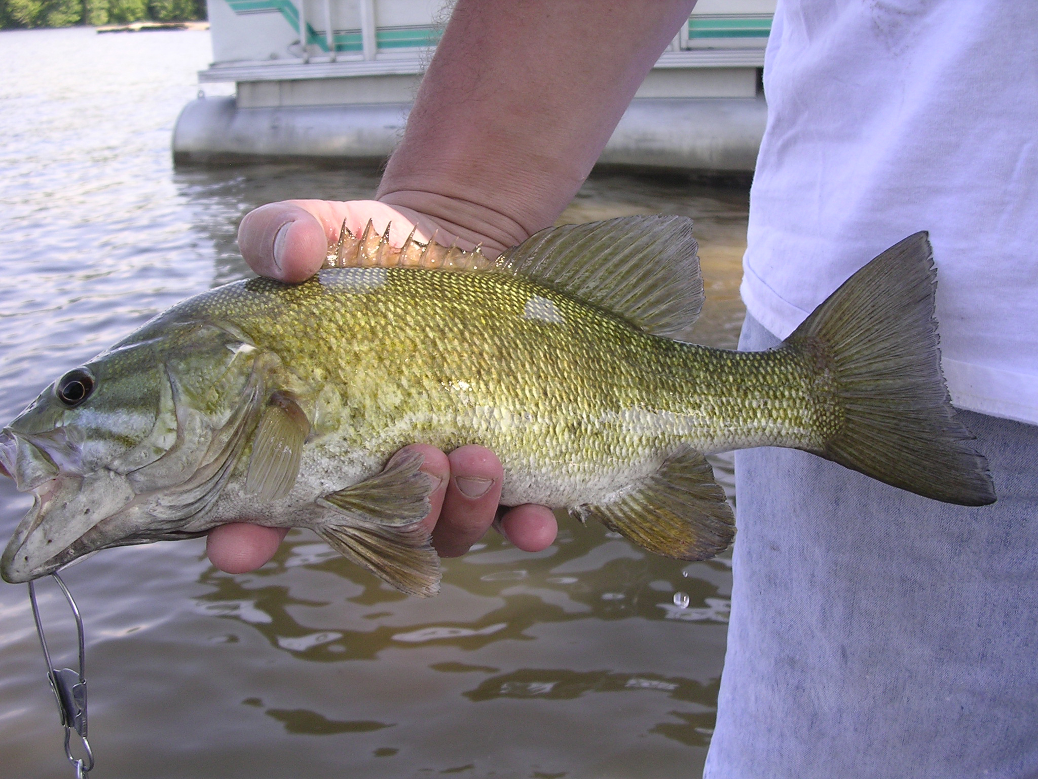 A photo of a smallmouth bass that my sibling caught in a fresh water lake recently.